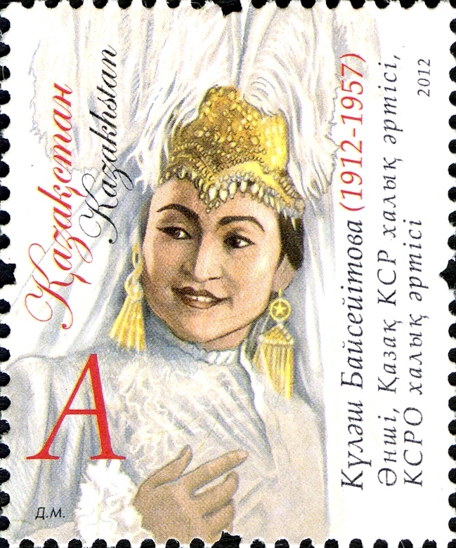 Stamps of Kazakhstan, 2012